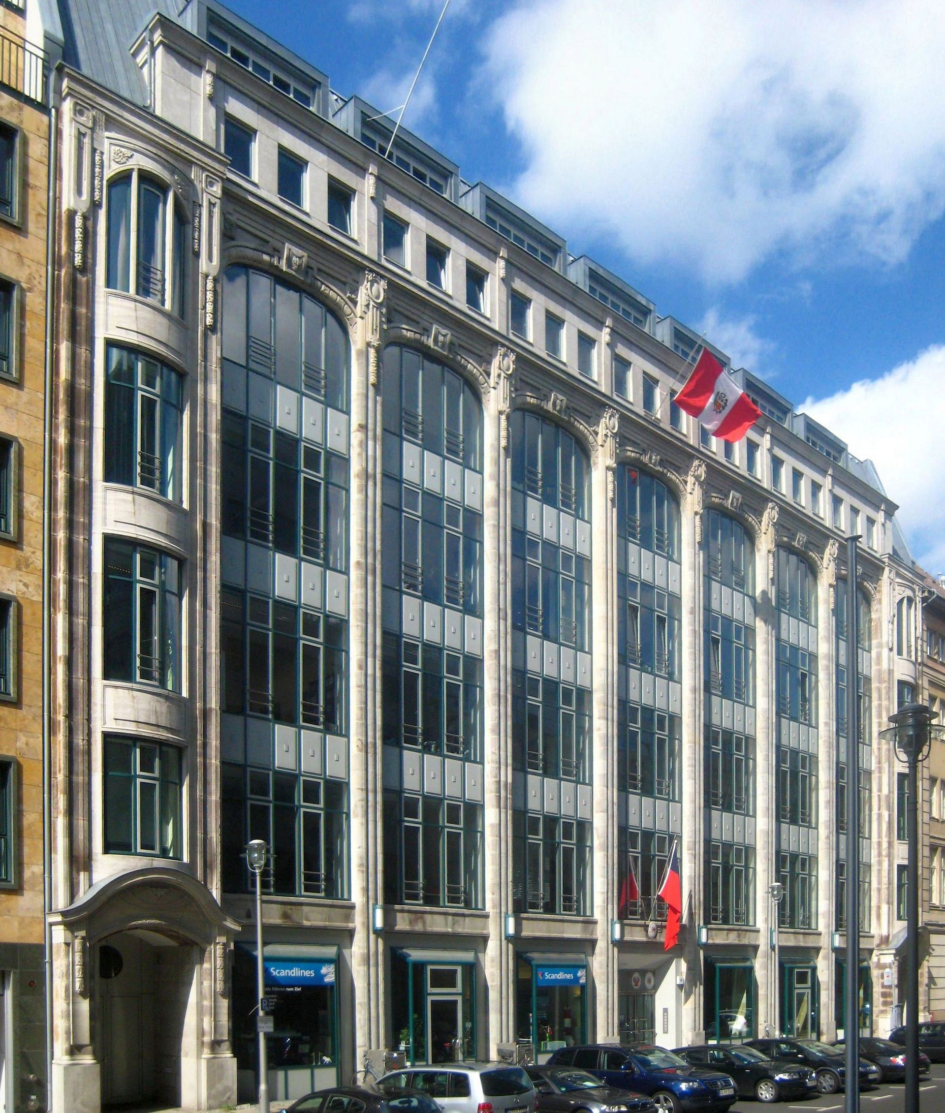 Embassy building at Mohrenstraße No. 42 in Berlin-Mitte. The building houses the embassies of Peru, Chile, and Lichtenstein.